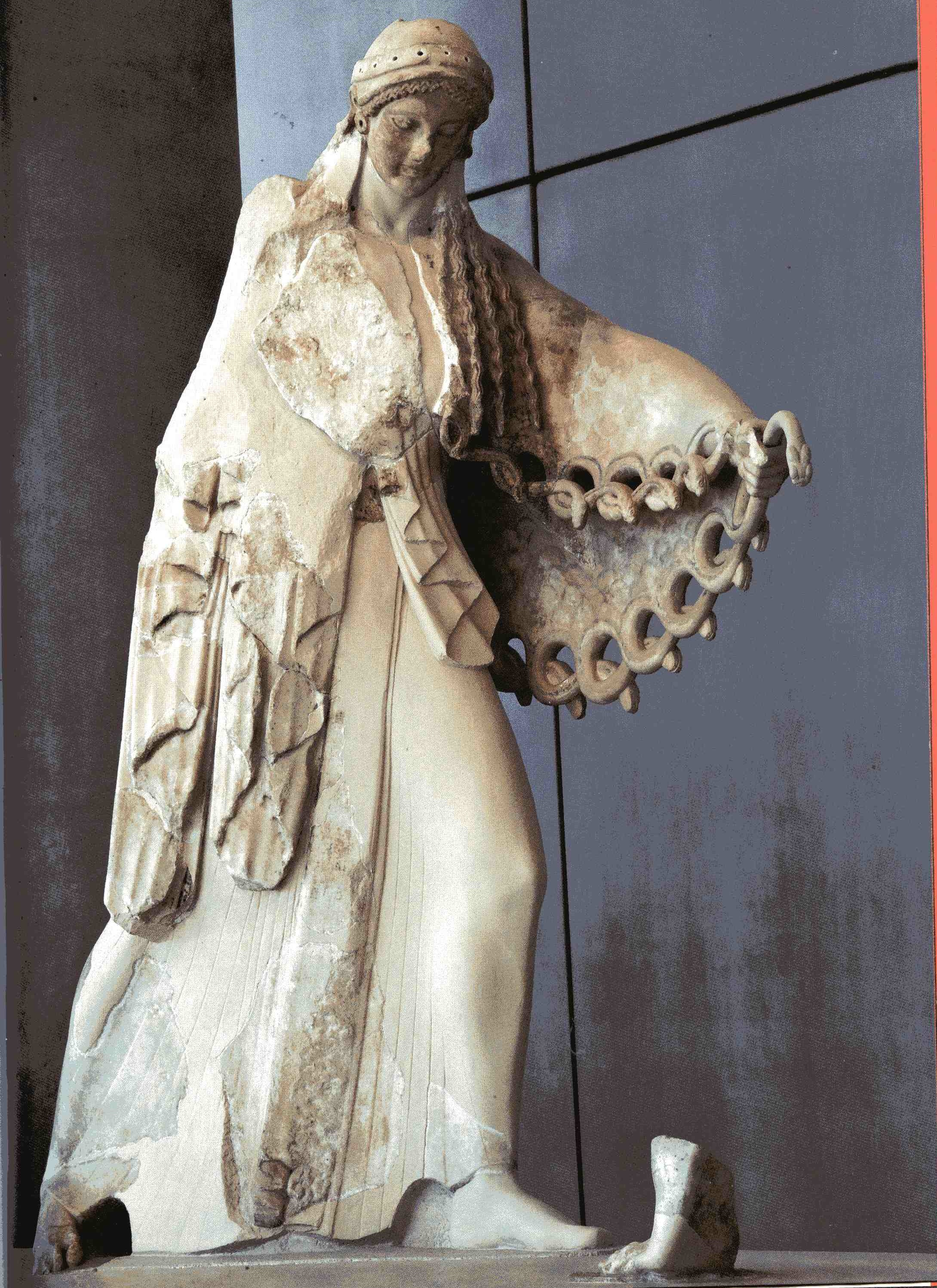 Athena, West pediment of the old temple of Athena Polias (Acropolis of Athens)